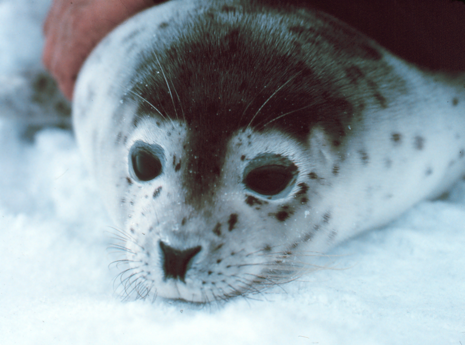 Phoca largha taken at Alaska, Bering Sea.